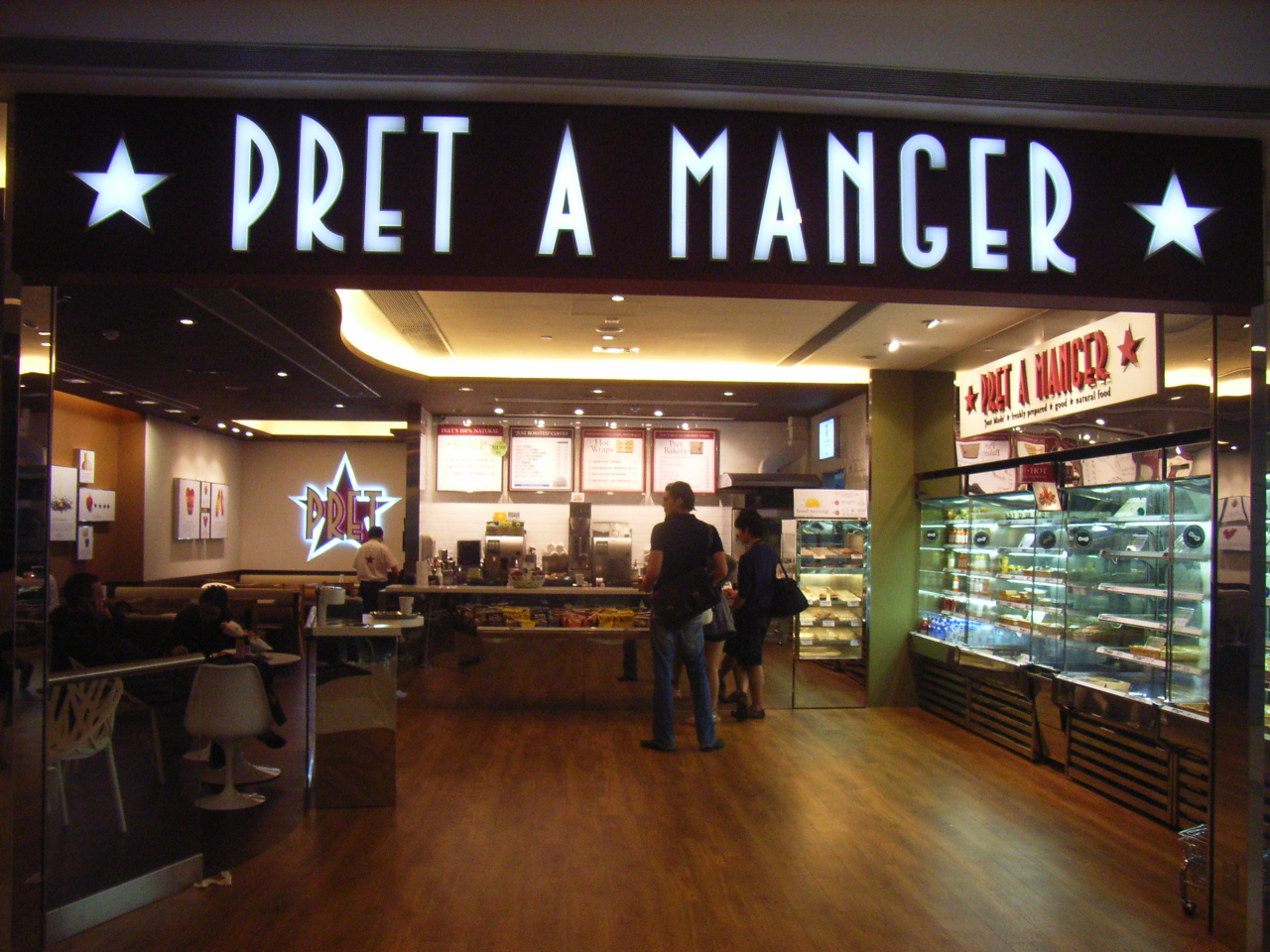 國際金融中心商場Pret A Manger